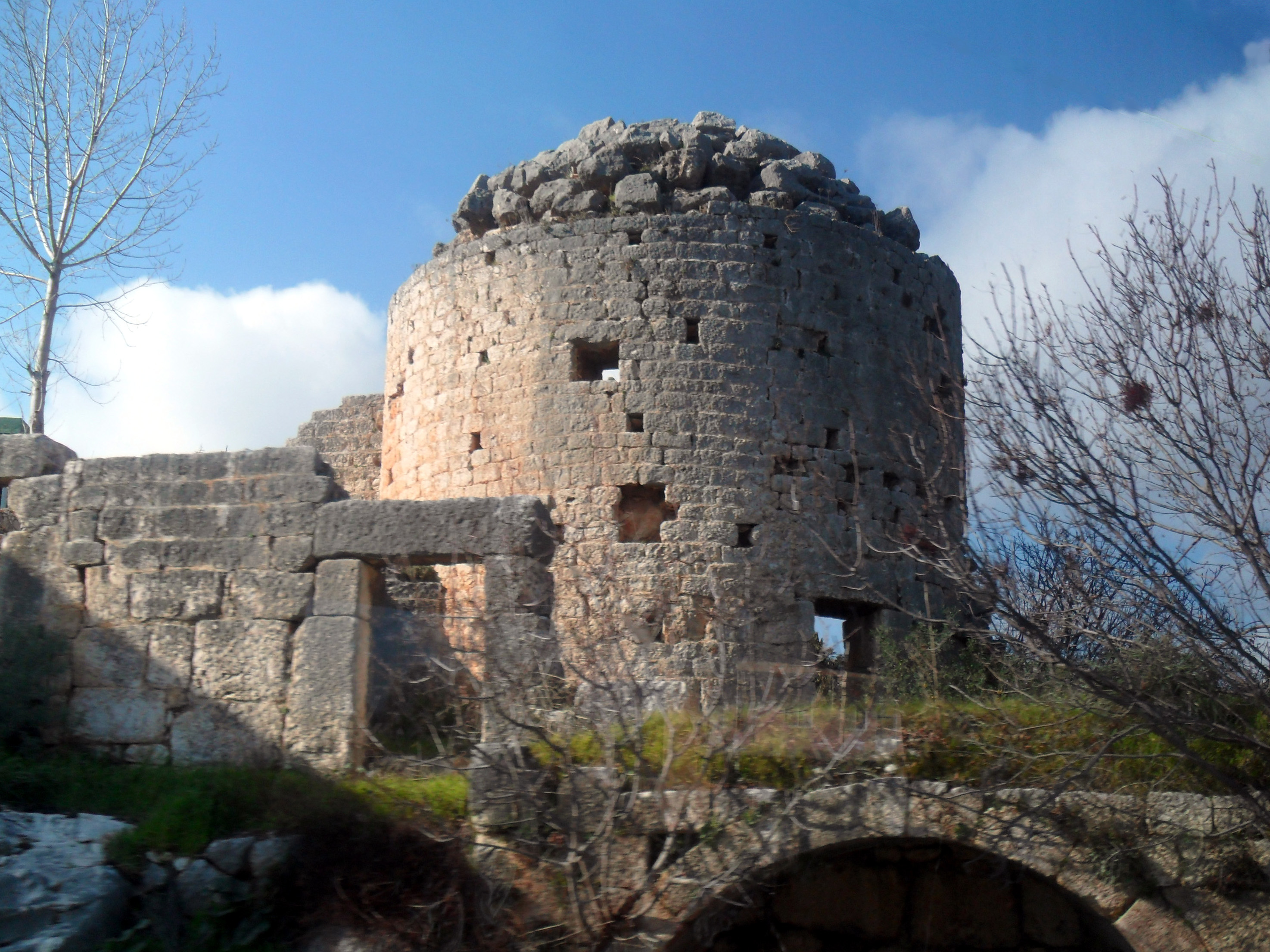 Church in Hasanaliler quarter of Narlıkuyu, Silifke, Mersin Province